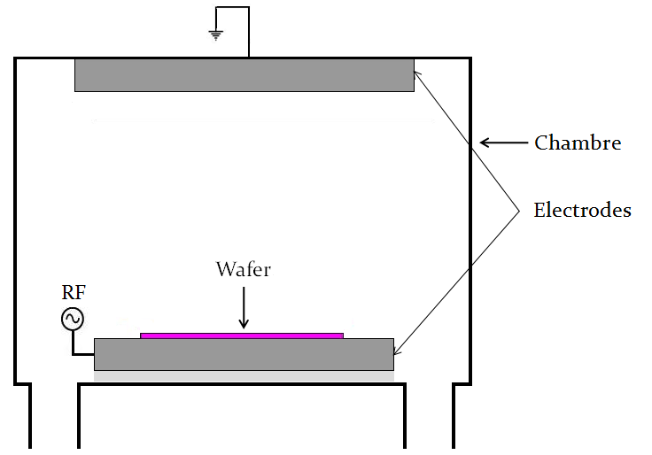 Chamber of a sputterer